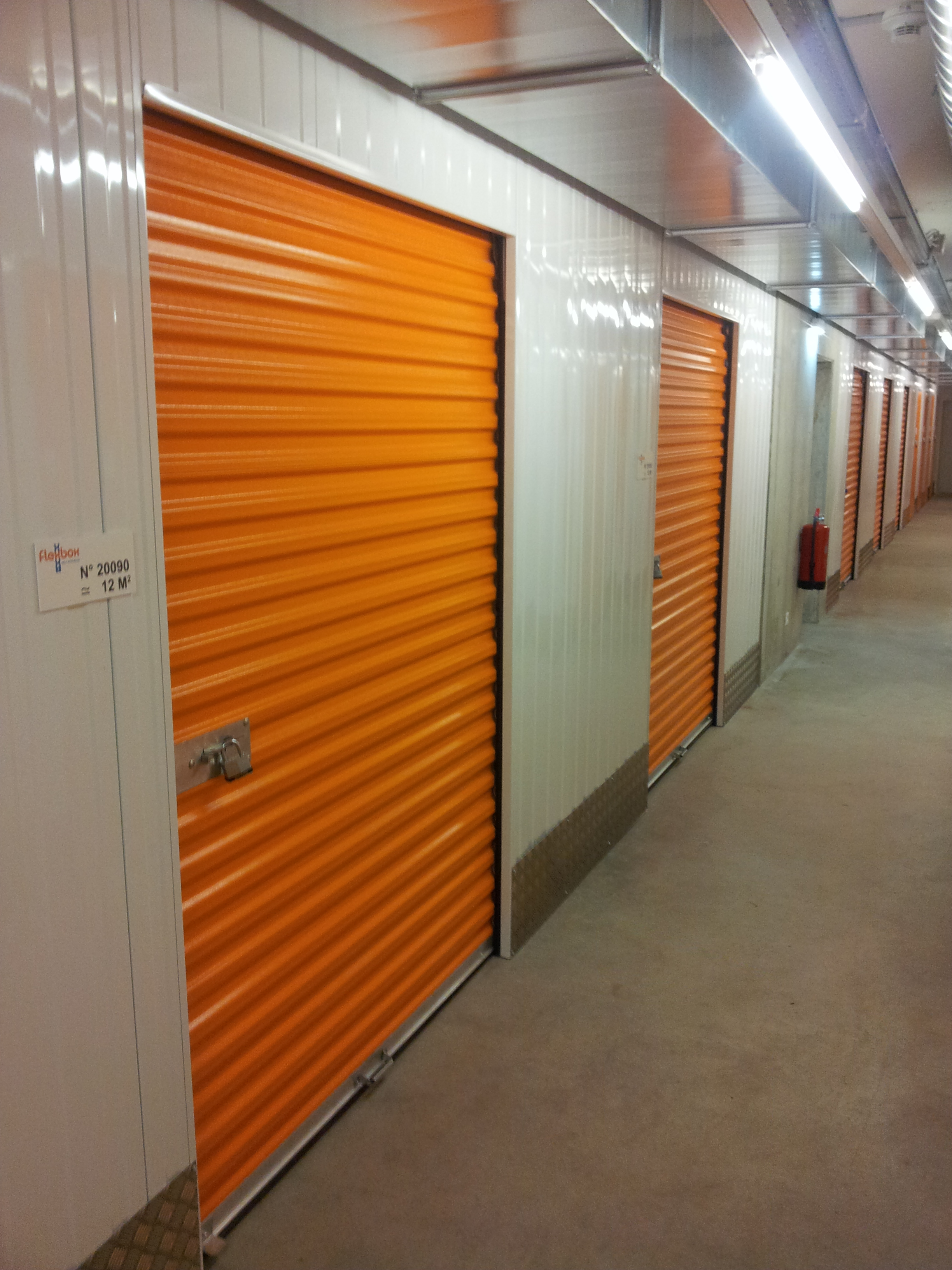 Photo d'une porte large qui s'enroule, assistée par des ressorts. Limite le poids de la porte et donne de l'espace pour le passage de meubles larges. (Position fermée)